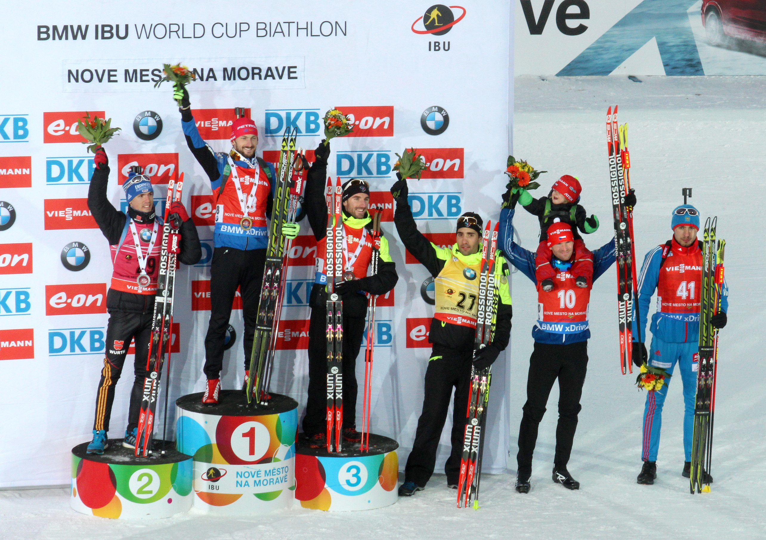 Biathlon World Cup 2015 in Nové Město, Czech Republic – podium after sprint men Zleva / From left to the right: Simon Schempp, Jakov Fak, Jean-Guillaume Béatrix, Martin Fourcade, Michal Šlesingr and Anton Schipulin.